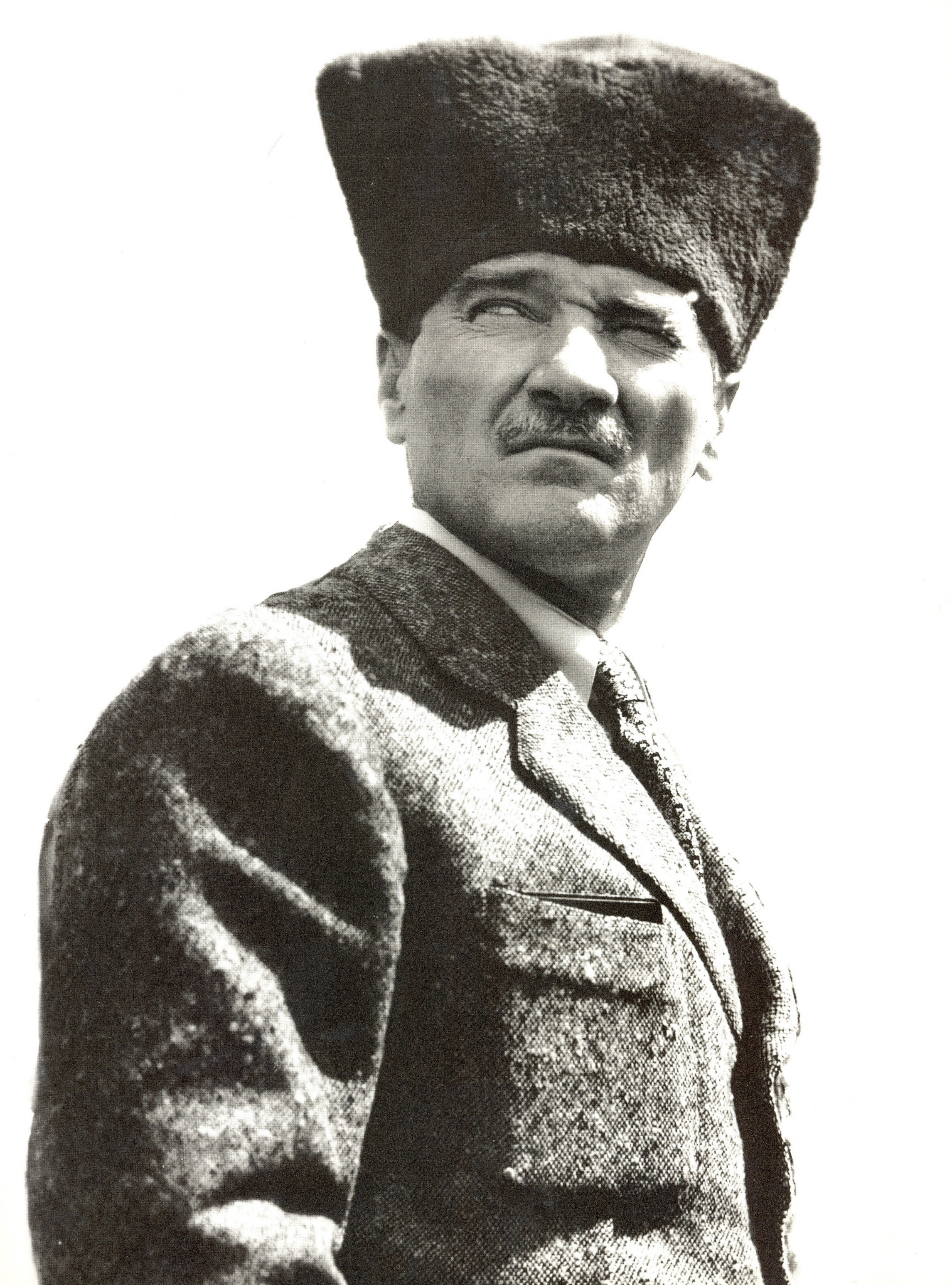 Kemal Atatürk (or alternatively written as Kamâl Atatürk, Mustafa Kemal Pasha until 1934, commonly referred to as Mustafa Kemal Atatürk; 1881 – 10 November 1938) was a Turkish field marshal, revolutionary statesman, author, and the founding father of the Republic of Turkey, serving as its first President from 1923 until his death in 1938. He undertook sweeping progressive reforms, which modernized Turkey into a secular, industrial nation. Ideologically a secularist and nationalist, his policies and theories became known as Kemalism. Due to his military and political accomplishments, Atatürk is regarded as one of the most important political leaders of the 20th century.